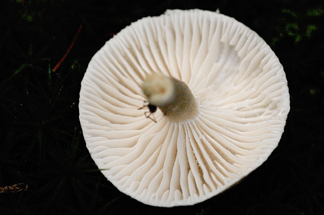 Hygrophorus pustulatus from Commanster, Belgium. The determination of the species shown in this picture has been verified.